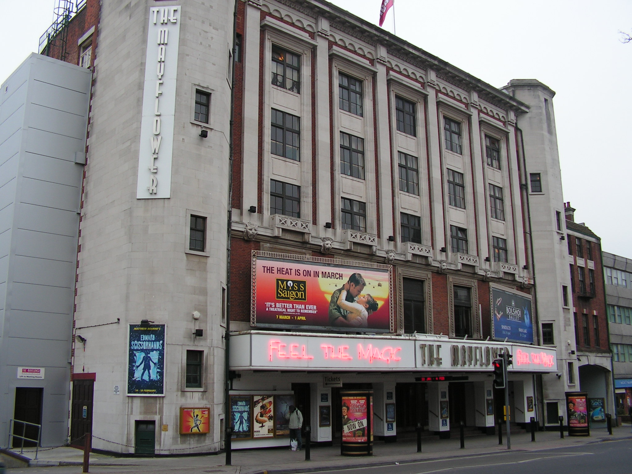 The Mayflower Theatre, Southampton, England. Taken by Michael Collins 03/02/06